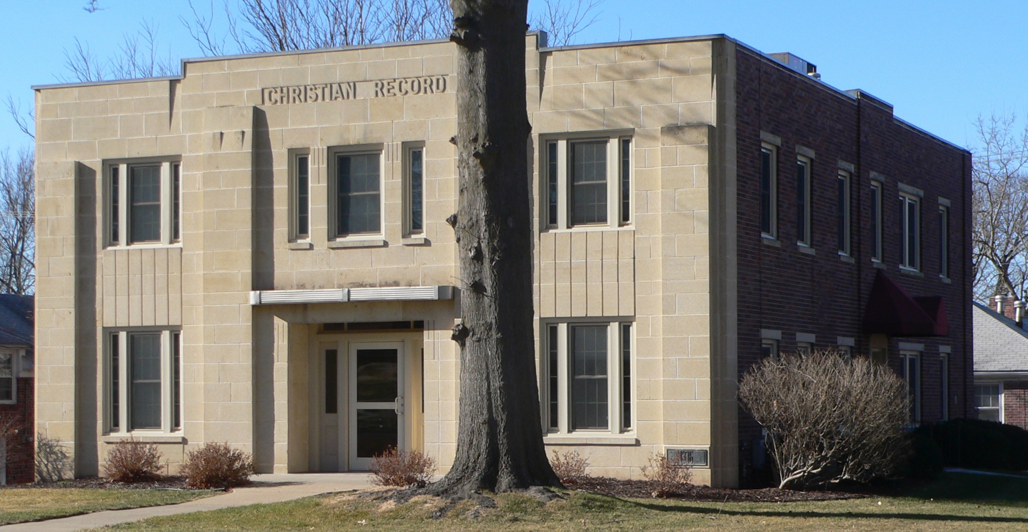 Christian Record building, located at 3705 S. 48th Street in Lincoln, Nebraska; seen from the northeast.